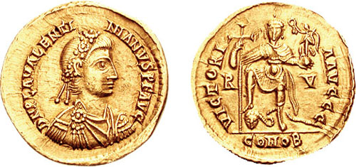 Valentinianus III. 425-455 AD. AV Solidus (4.39 gm, 6h). Ravenna mint. Struck 426-430 AD. Rosette-diademed, draped, and cuirassed bust right Valentinian standing facing, holding long cross and Victory on globe, foot on human-headed serpent; R-V/COMOB. RIC X 2010; Depeyrot 17/1. Good VF. From the Tony Hardy Collection.